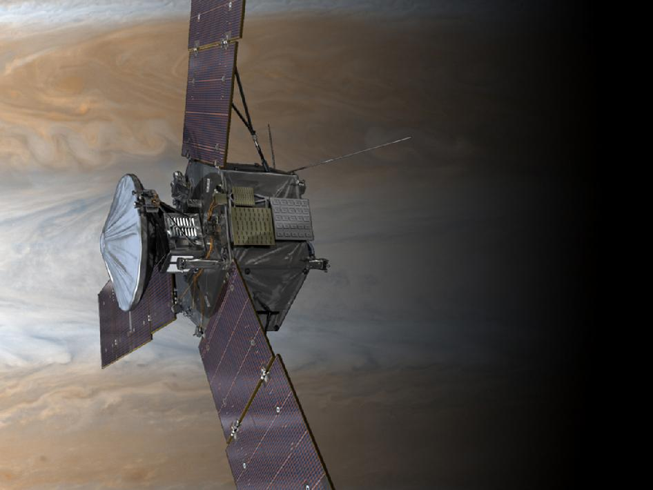 Juno spacecraft orbits Jupiter (artist's view)